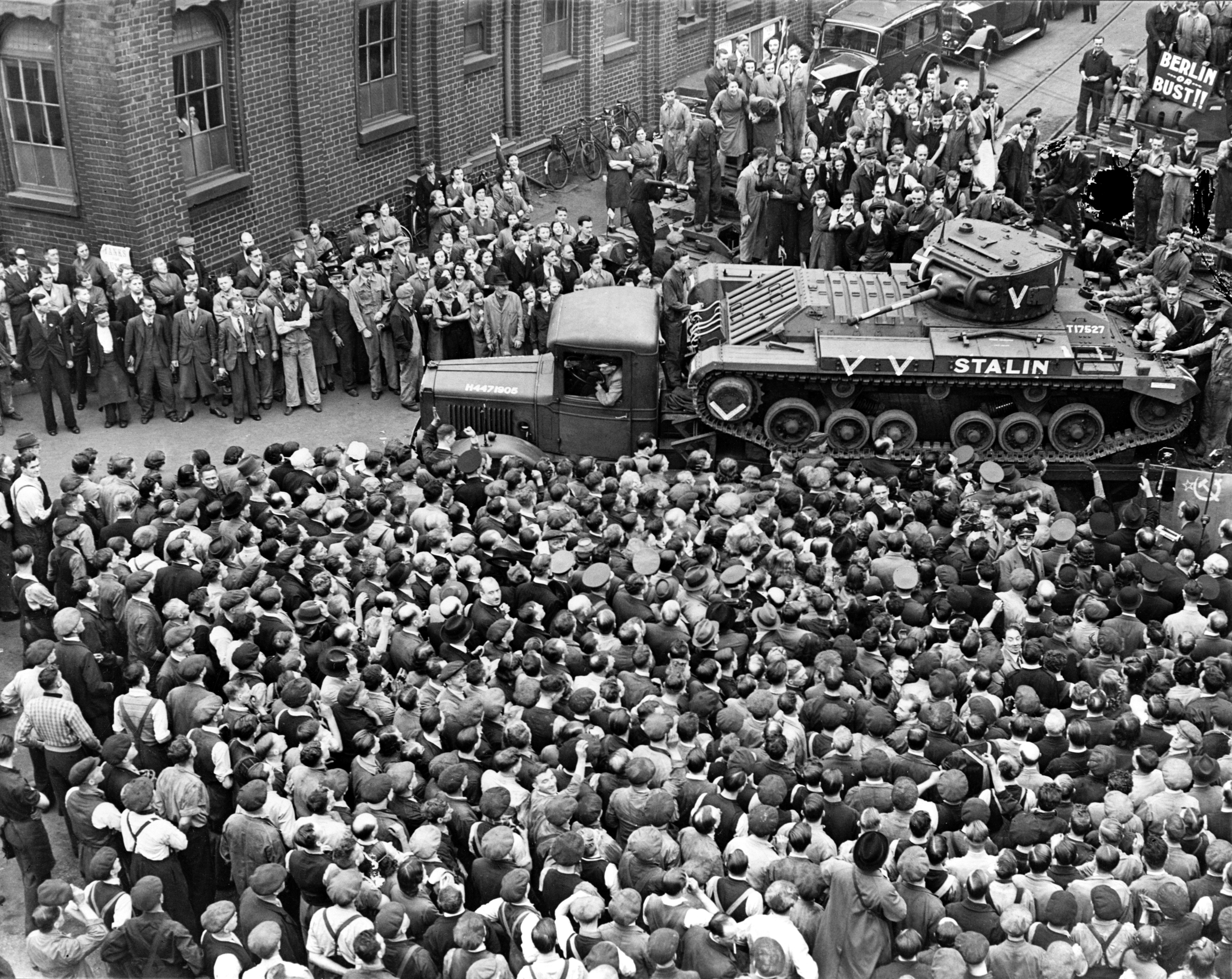 Crowds of people and a guard of honor of tanks, meeting M. Maisky, Soviet ambassador, and members of the Russian military mission when they arrived at a tank factory somewhere in Great Britain(?), where the week's tank production is for Russia, showing the "Stalin" tank, which had just been christened by Madame Maisky.